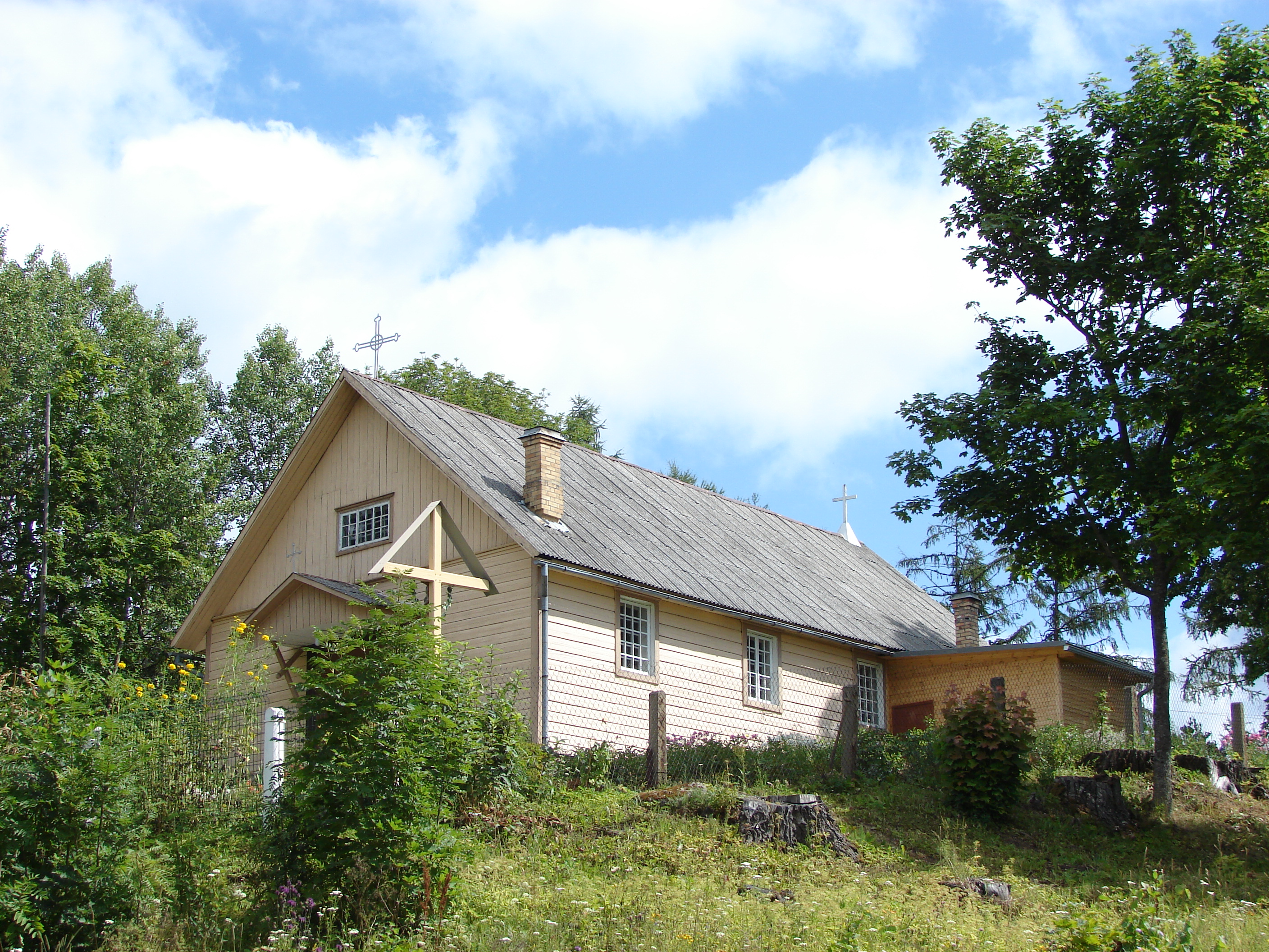 Dukstigals Catholic church